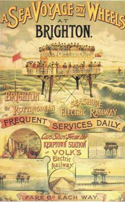 Poster of Daddy Long Legs, unusual seagoing railway that existed in Brighton, UK, brtween 1896 and 1901